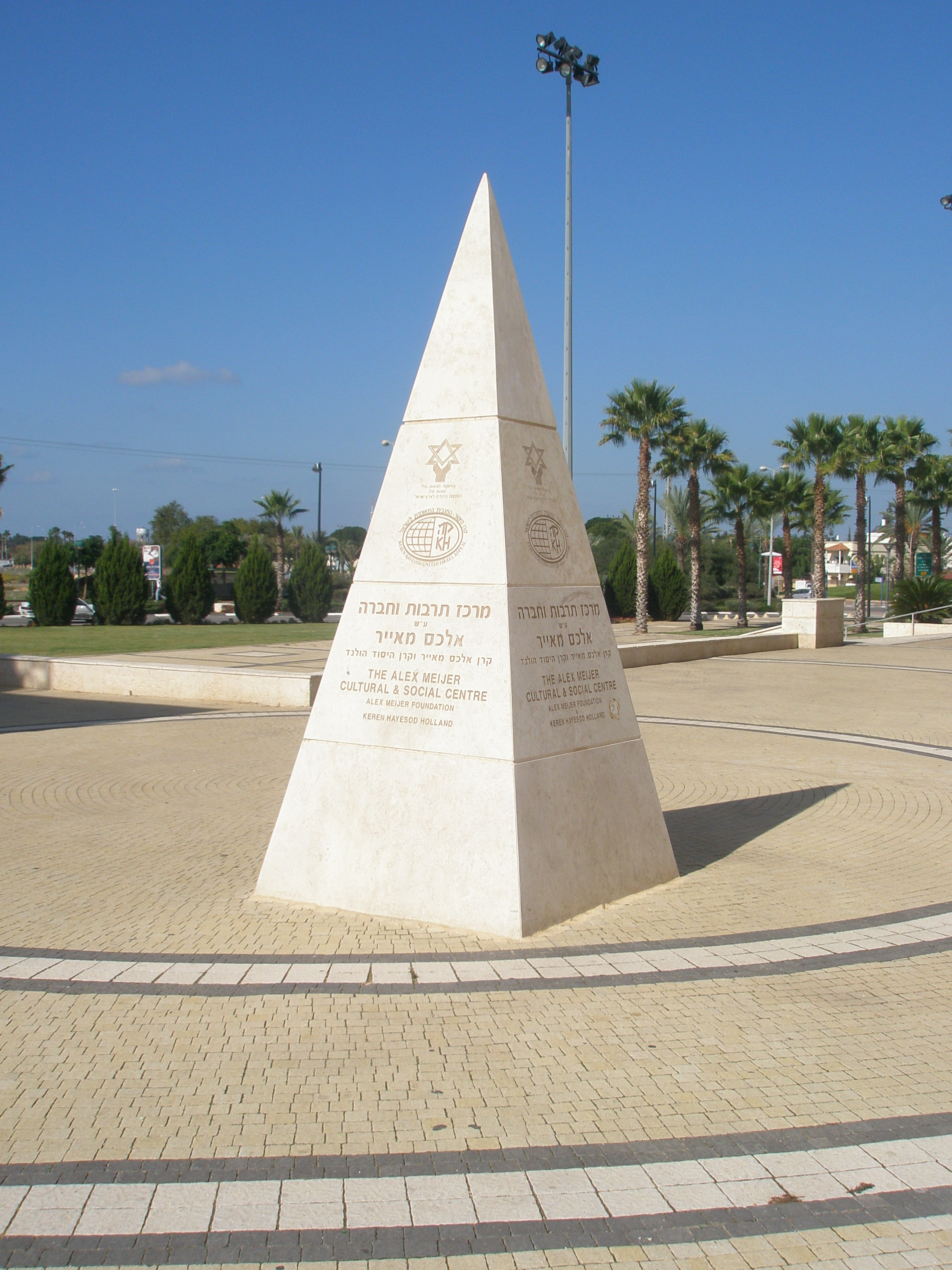 Dedication pyramid, Or Akiva